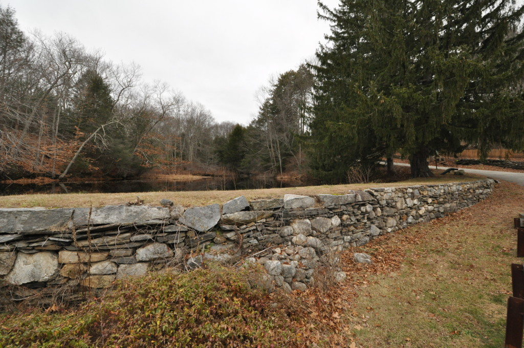 Hemlock Glen Industrial Archeological District, Hampton, Connecticut. View of mill pond and part of dam wall.